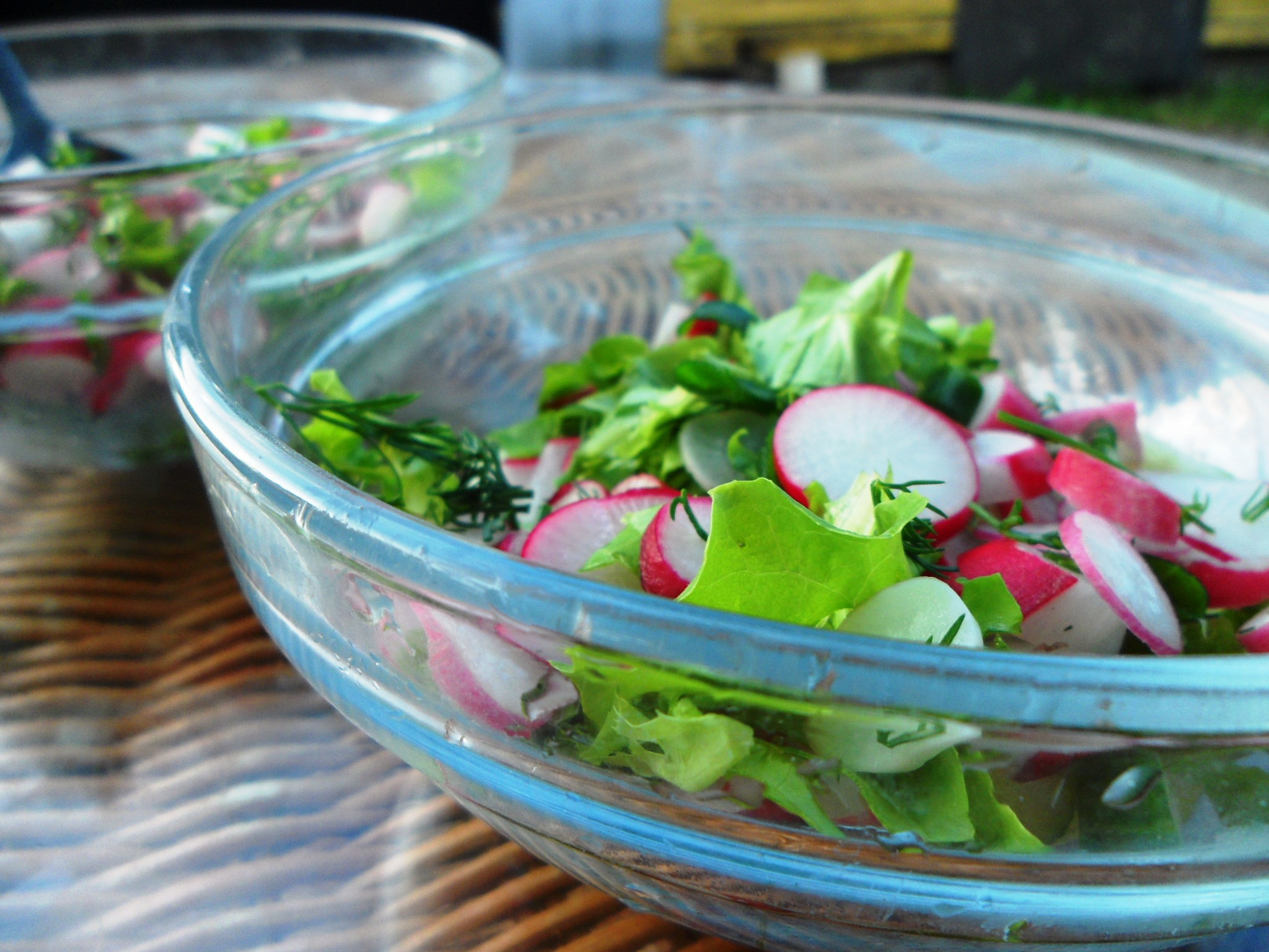 Radish (Raphanus sativus) salad